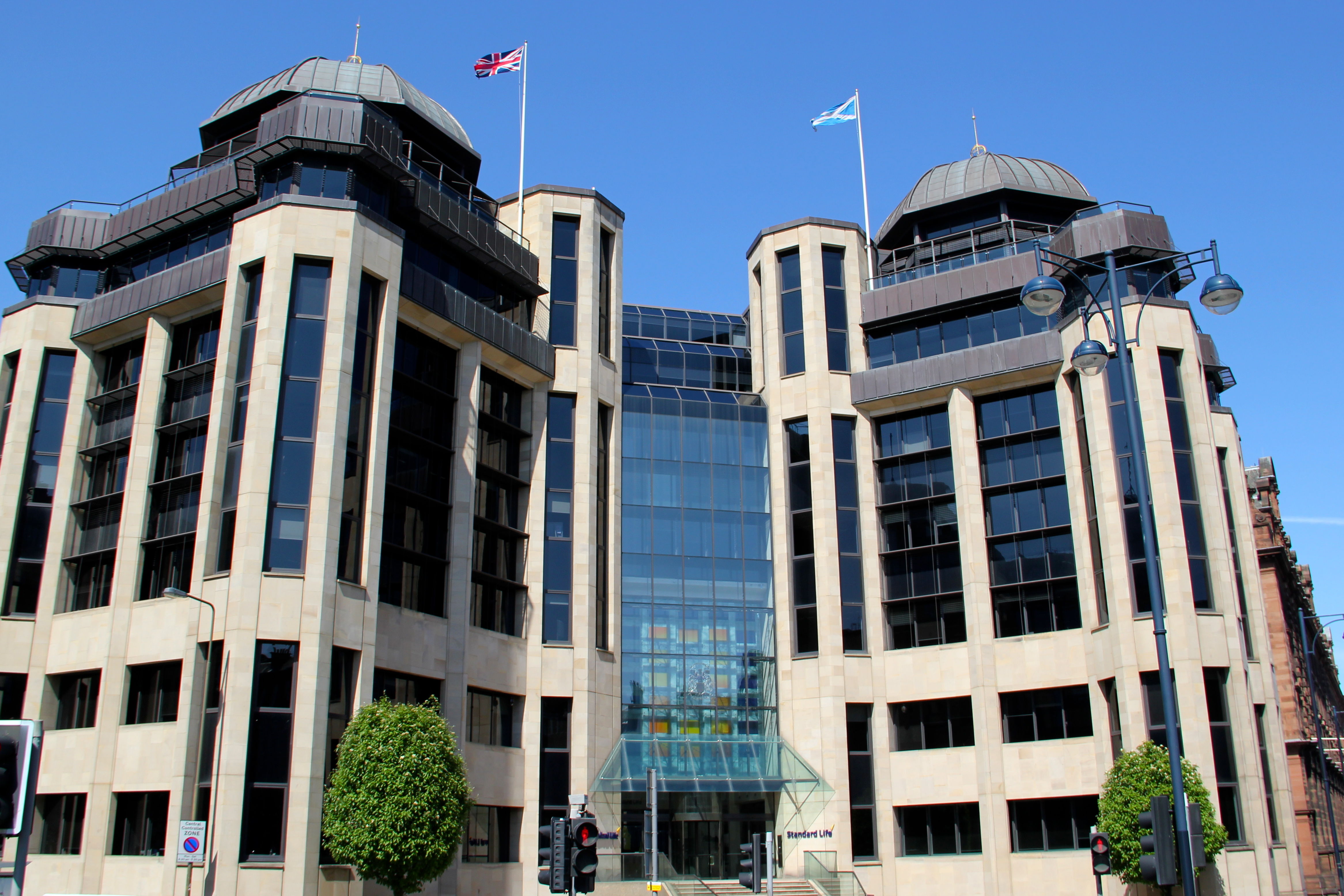 The head office of Standard Life plc "Standard Life House" on 30 Lothian Road, Edinburgh, EH1 2DH